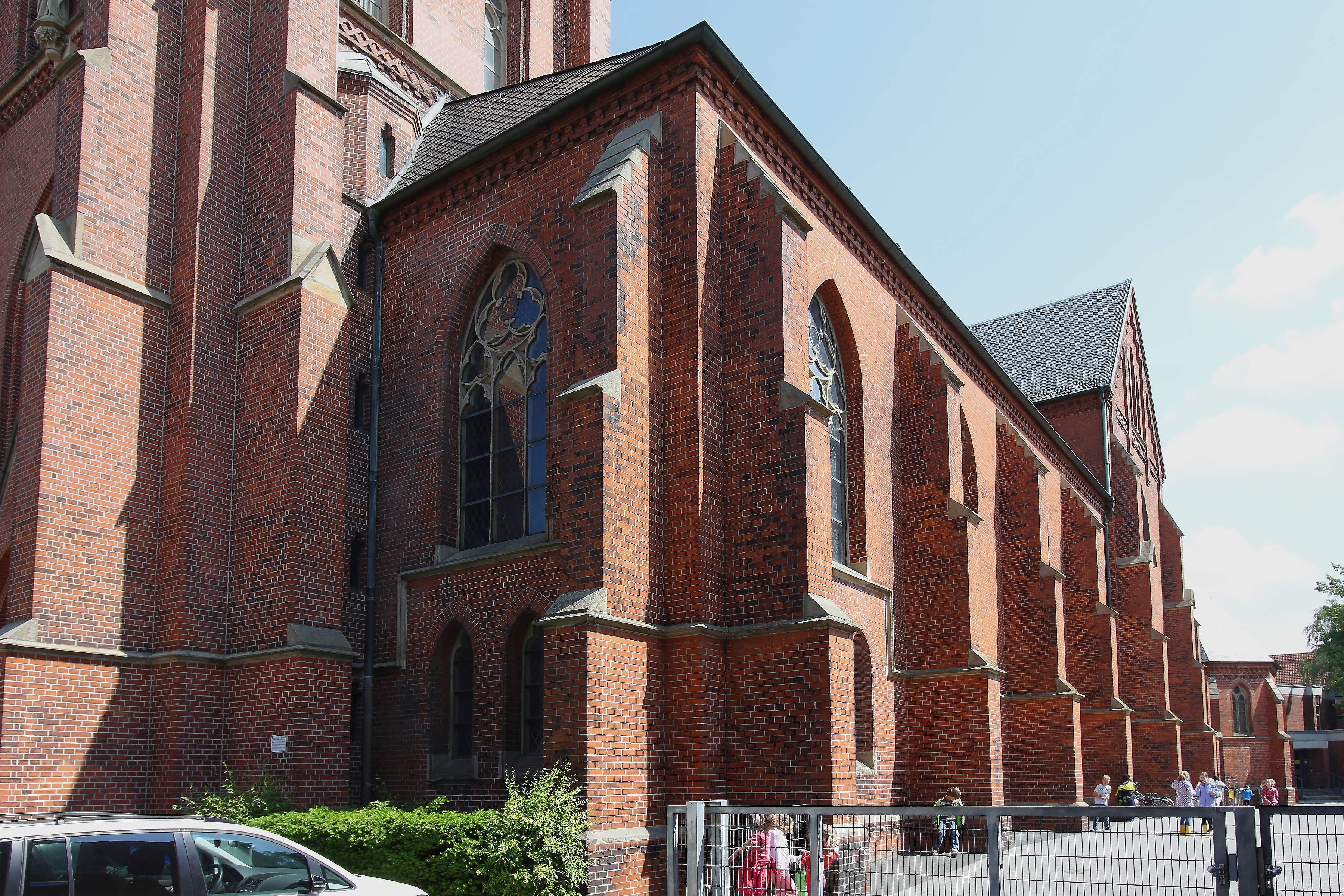 Roman-catholic church St. Sophien in Hamburg-Barmbek